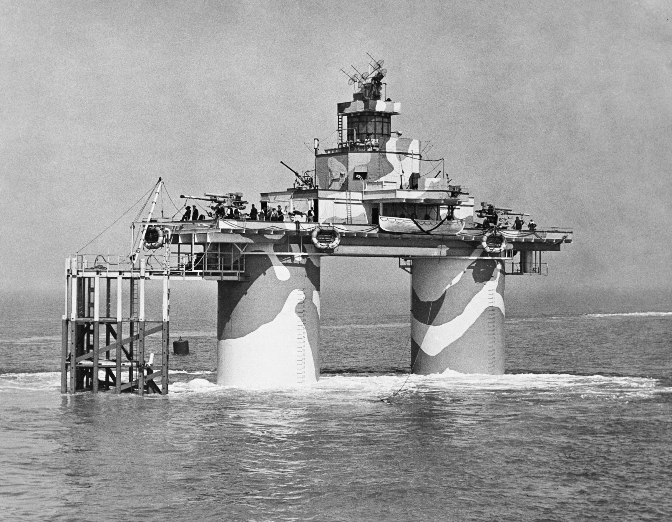 The Royal Navy during the Second World War Sea forts in the Thames Estuary: The fort in position and ready for action. Air is still seen escaping from the sea cocks as further consolidating water ballast enters the pontoon base. One of the forts was actually in action half an hour after being put into position. These secret forts of the Thames Estuary were an effective defence against attacks by sea and air on the estuary. Visible on the very top of the fort is a Searchlight Control radar, a medium-accuracy system used to help aim a searchlight which would then be used to illuminate the target for conventional optical aiming. The large guns on either side of the fort are 3.7-inch AA. Just left of center, at the "back" of the fort from this position, is a Bofors 40mm gun. The barrel of a second Bofors can be made out just right of center.